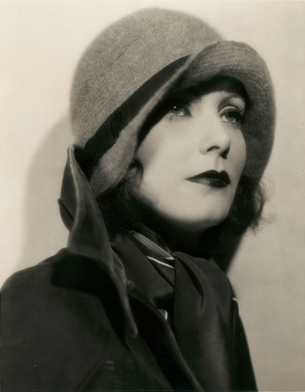 Greta Garbo